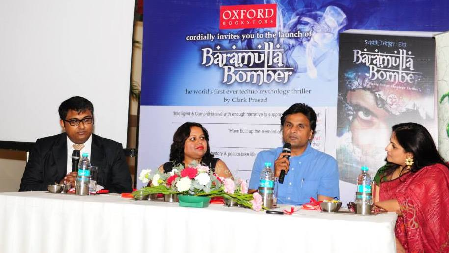 Baramulla Bomber Book Launch